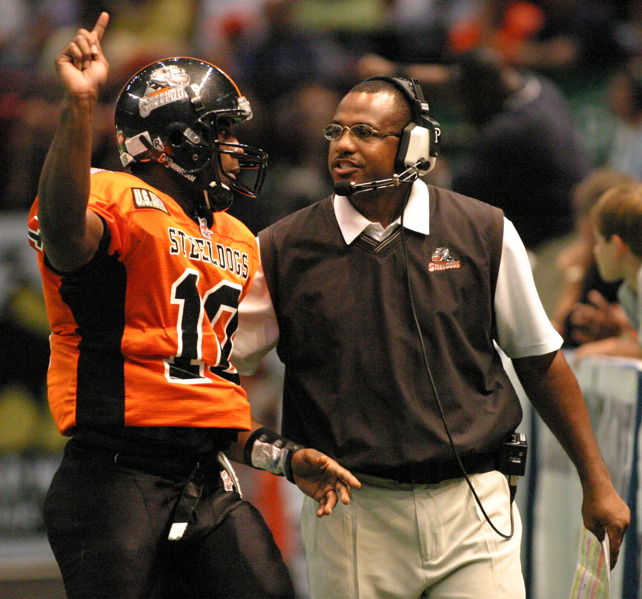 QB Jeff Aaron and then-Steeldogs' Head Coach Bobby Humphrey call an upcoming play in the Steeldogs' 2004 victory over the Rio Grande Valley Dorados. The win made Humphrey the all-time winningest coach in af2 football until the 2005 season.